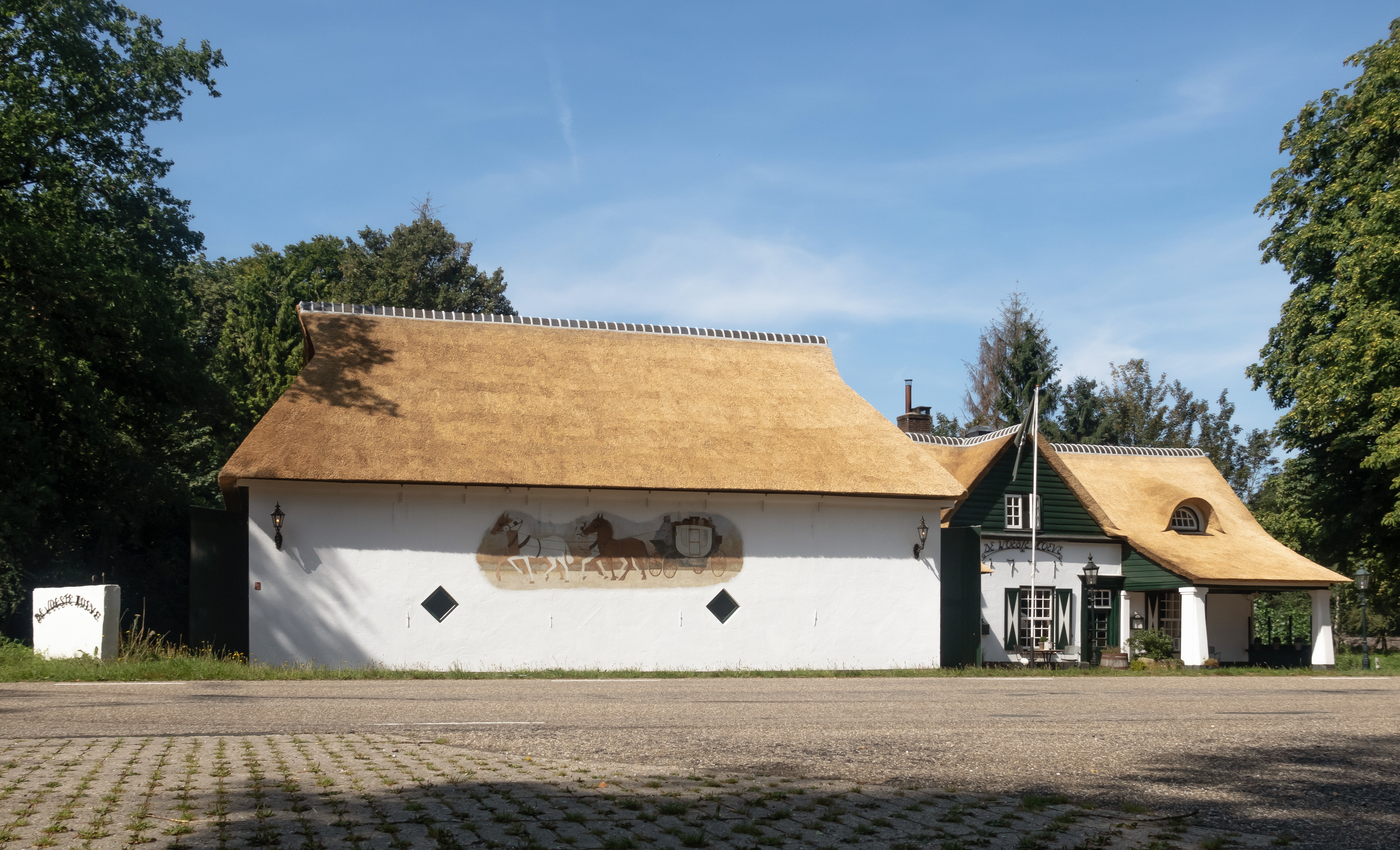 De Woeste Hoeve, restaurant de Woeste Hoeve